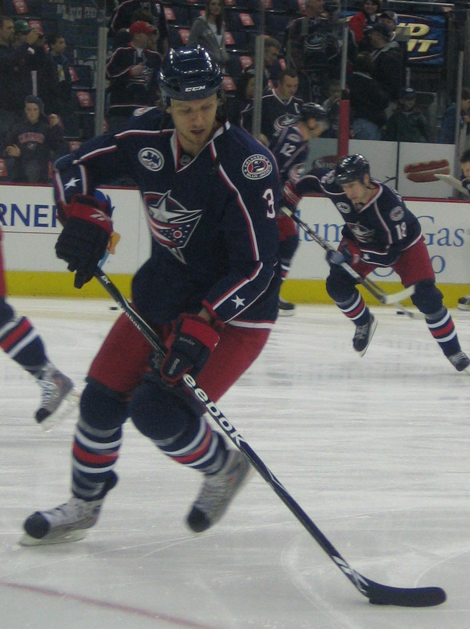 Marc Methot of the Columbus Blue Jackets warms up prior to their game against the Calgary Flames.